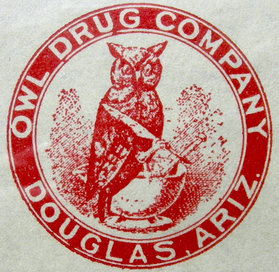 Owl Drug Company logo in 1917. This is from the back of a prescription pad the company apparently gave away to physicians. The prescription is from Douglas, Arizona.